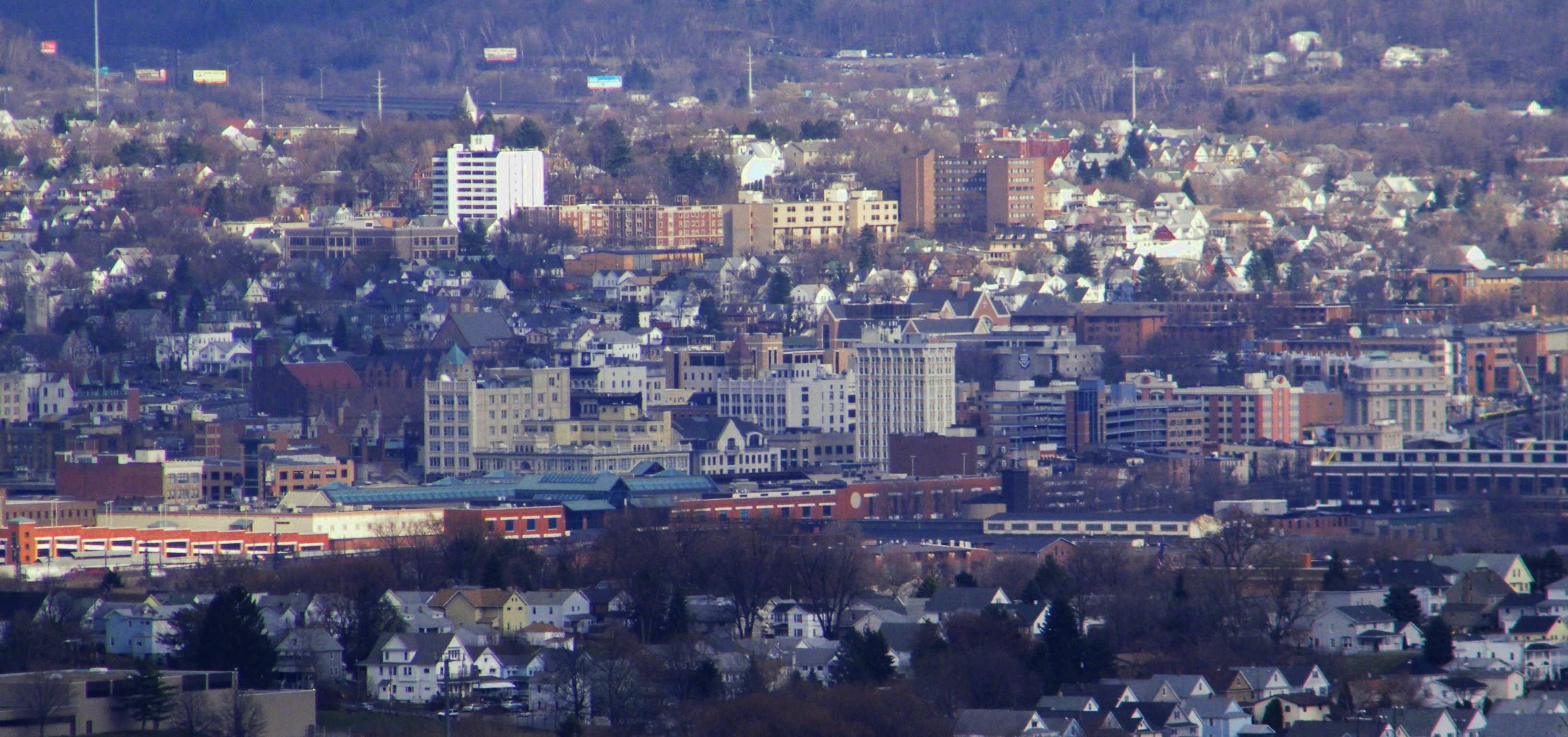 Downtown Scranton, looking East from West Mountain.